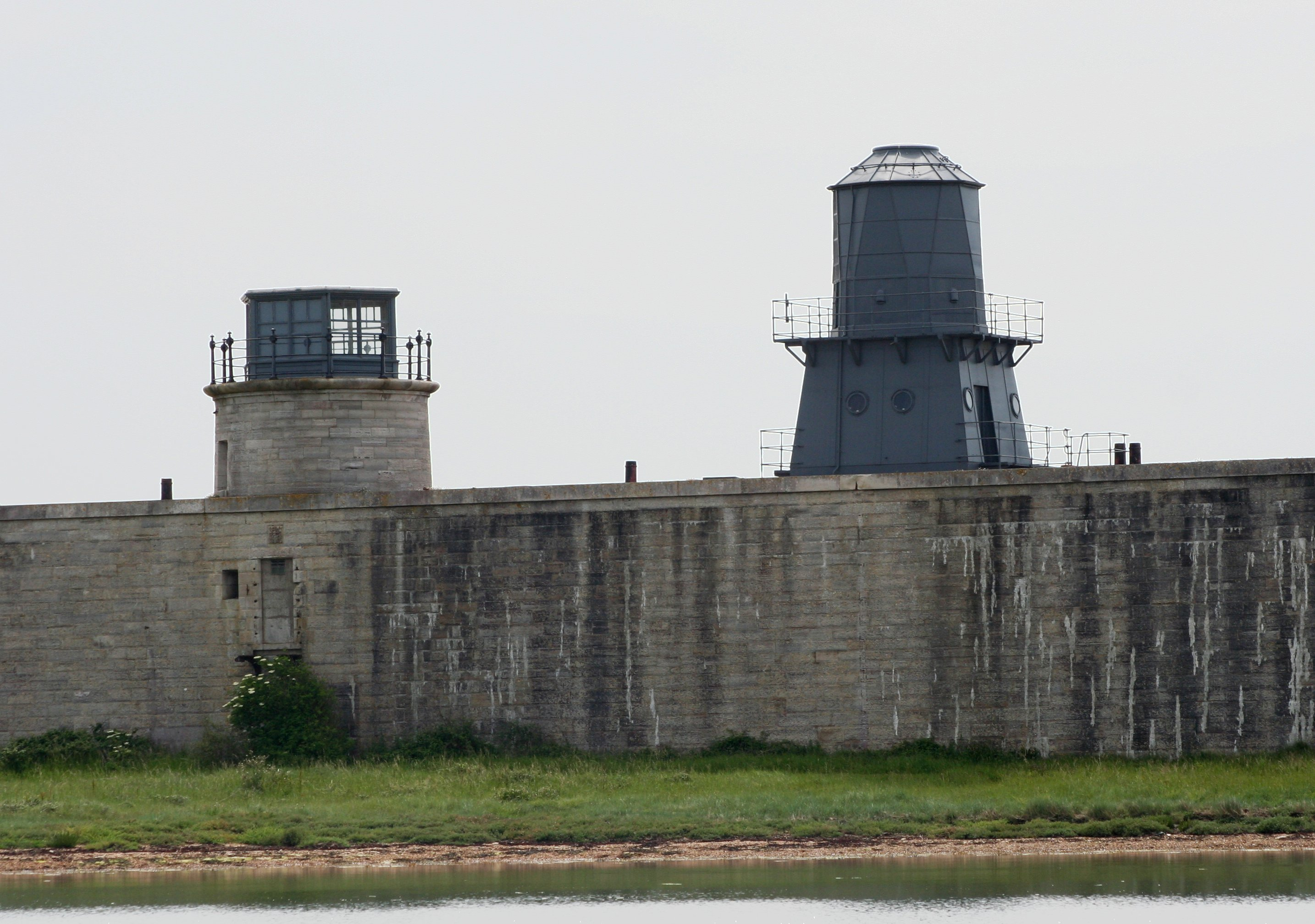 The two "Low Lighthouses" at Hurst Castle. The granite lighthouse was built in 1866; the metal lighthouse replaced it in 1911. The 1911 lighthouse was decommissioned in 1997.